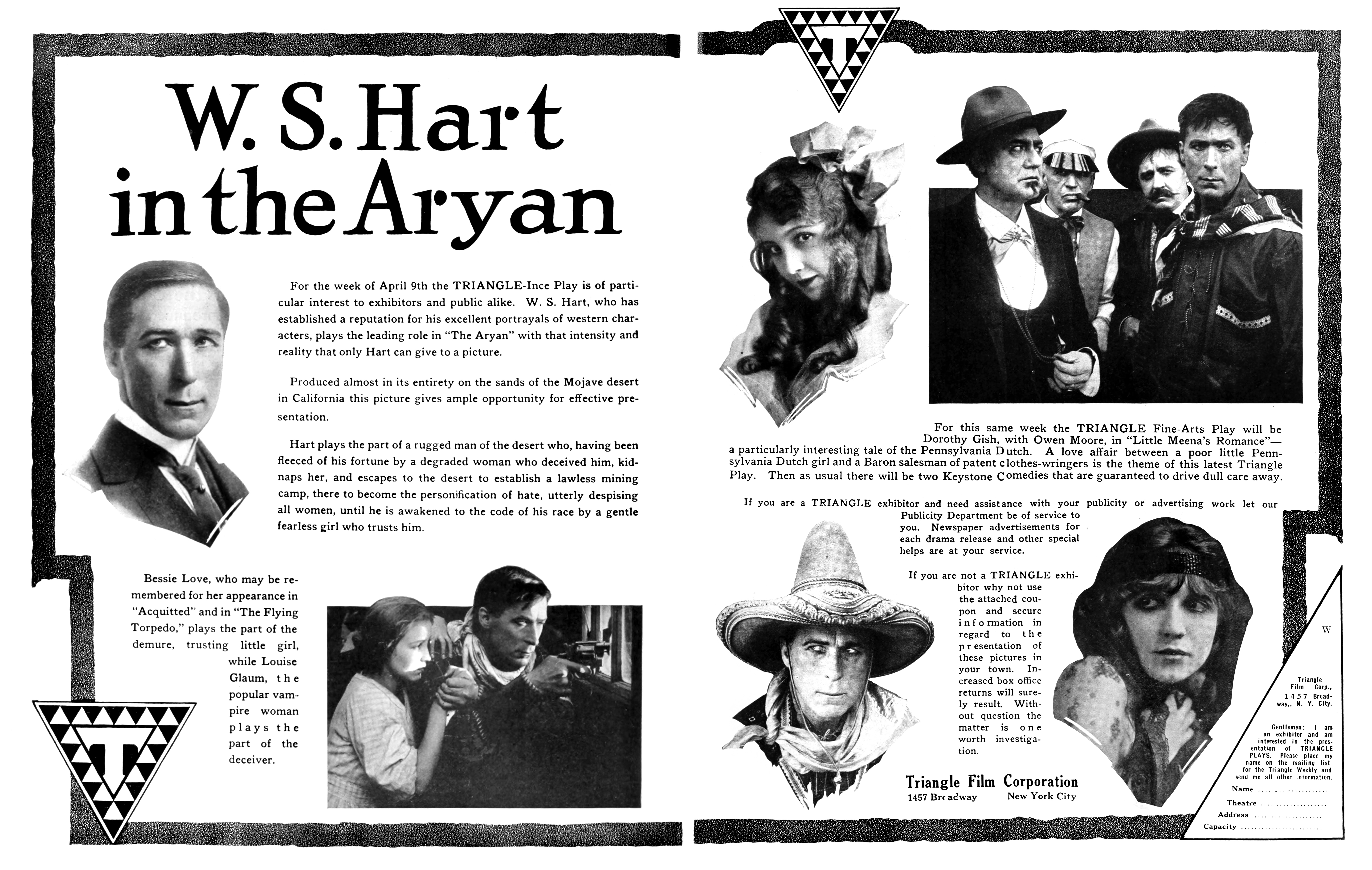 Magazine advertisement for the film The Aryan (1916) starring William S. Hart, Gertrude Claire, Charles K. French, Louise Glaum, and Bessie Love